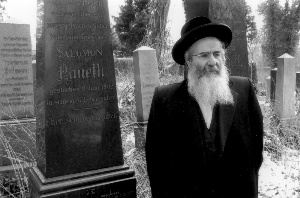 Rabbi Tzvi Elimelech Panet in Jewish Cemetery in Bielsko (Bielitz) Poland